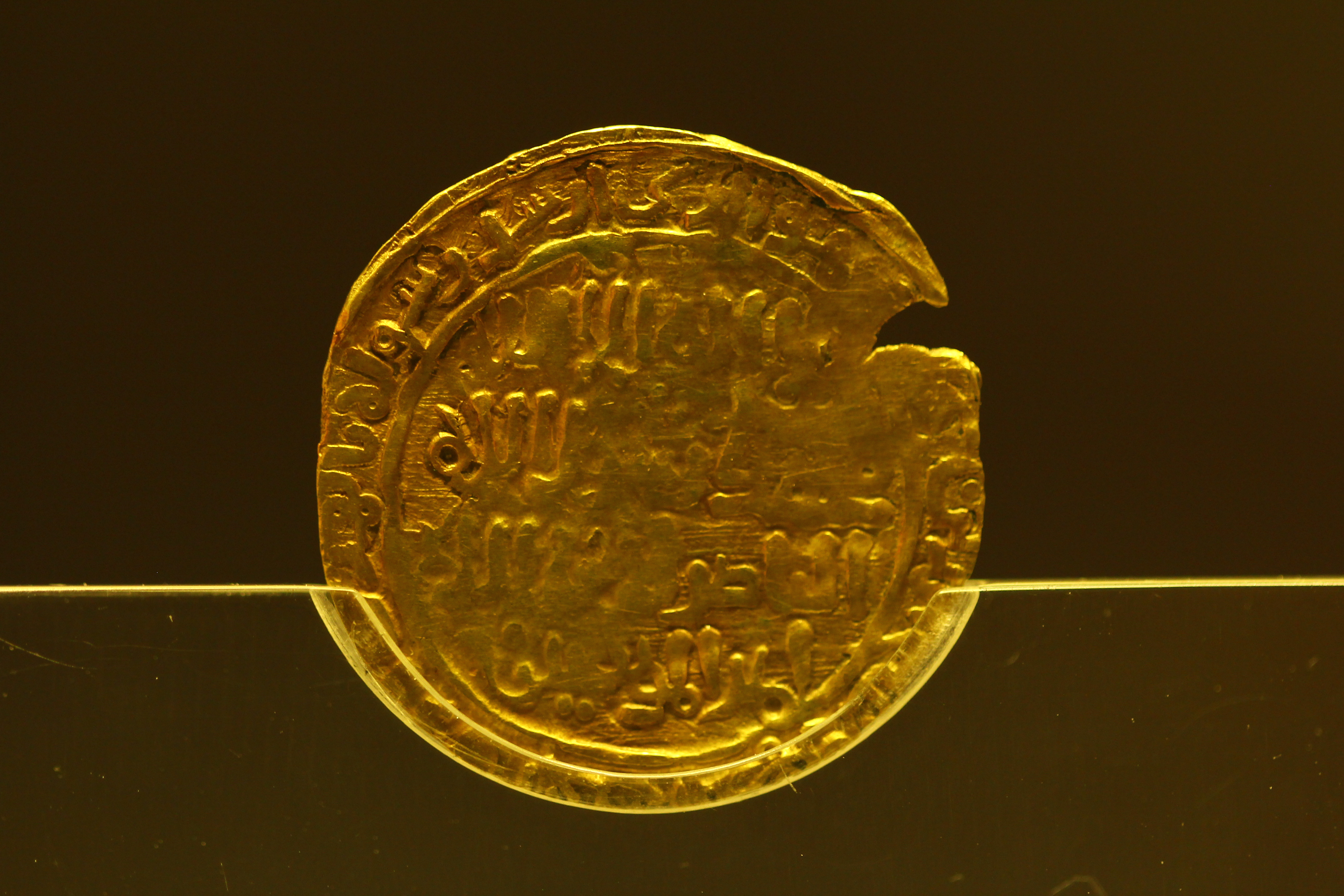 The gold coin of Genghis Khan has an inscription on its reverse, it reads "made in the year 618 (Islamic calendar, A.D. 1221) in Ghaznavid... ruler of rulers... the grandest... the most rightful... Genghis Khan Gold coins in this type, inscribed with the full name of Genghis Khan mint place and the date, are rarely seen in the world.